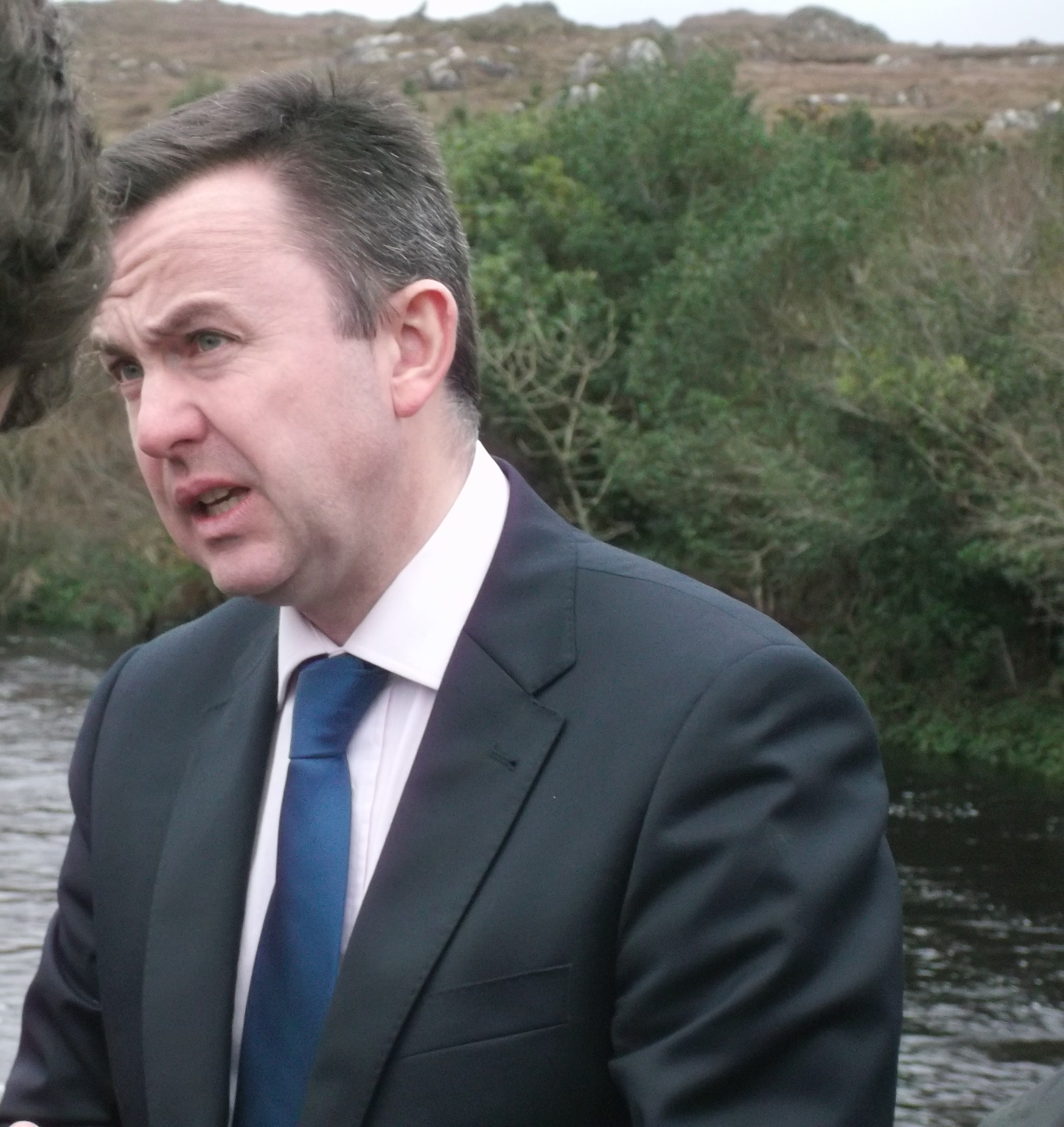 Since becoming Minister of State at the Department of Finance with responsibility for Public Works Brian Hayes has visited many areas where people have suffered from natural events. He stands here at the point where Sneem River floods its banks and has often caused destruction. This point is beside the GAA football field just before the river flows through the scenic County Kerry town of Sneem